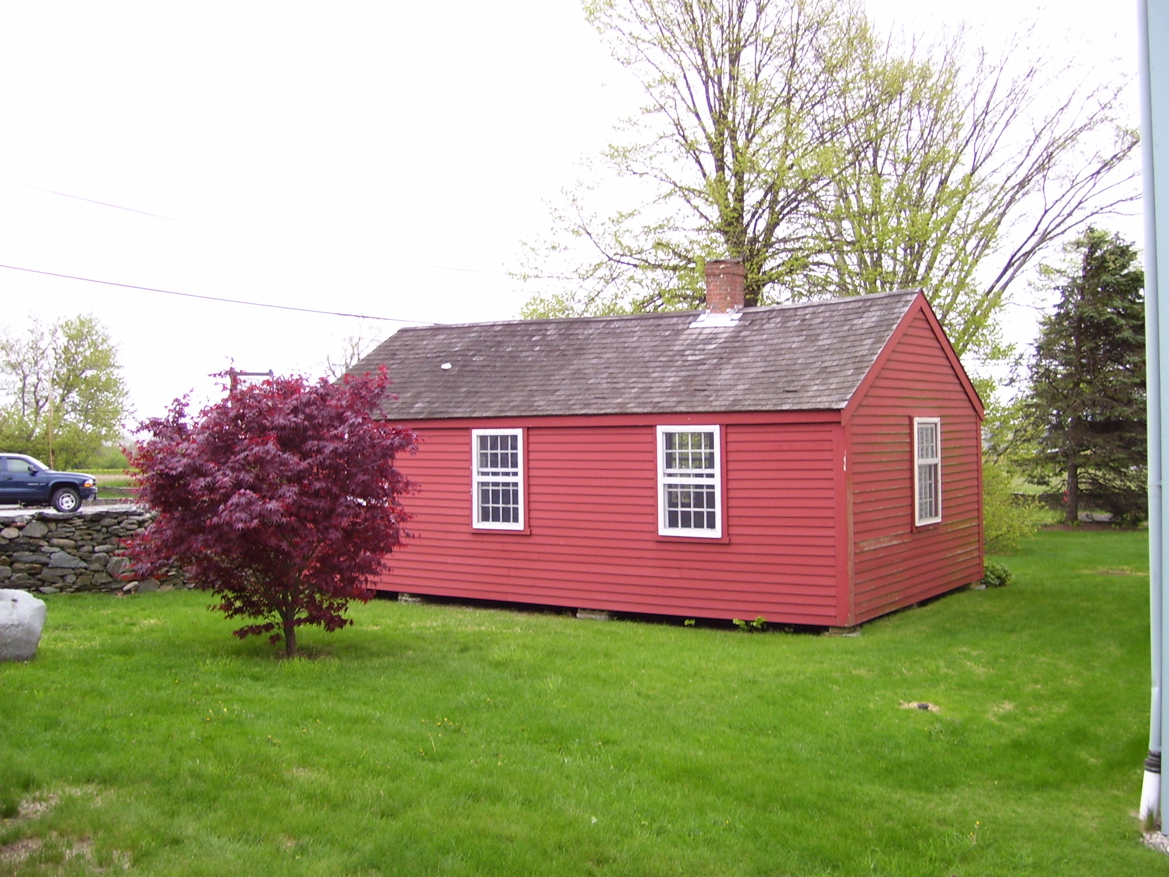 Portsmouth RI 1725 school house by me in 2008